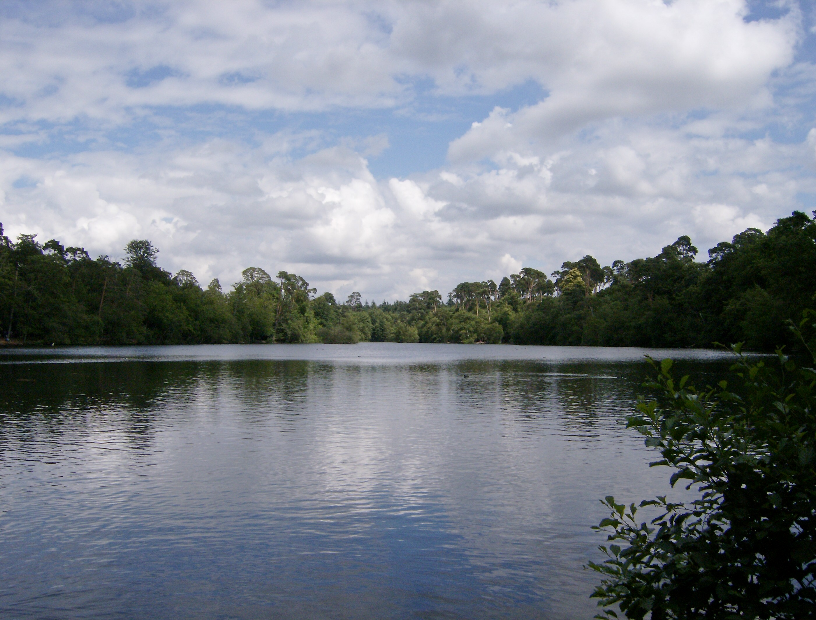 Blackpark Lake, Black Park Country Park, Buckinghamshire